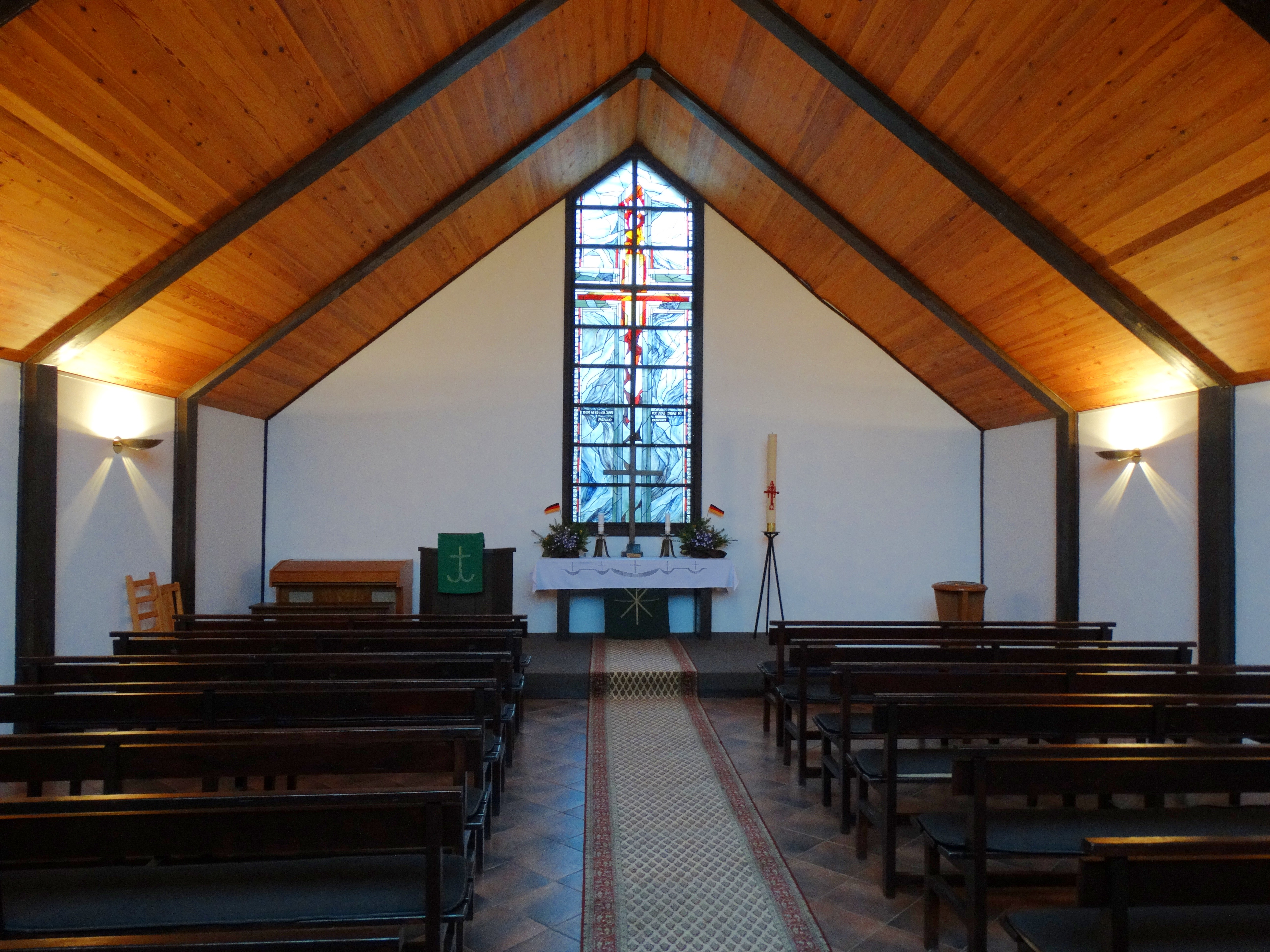 Emmaus Lutheran Church, interior, Sudargas, Šakiai district, Lithuania